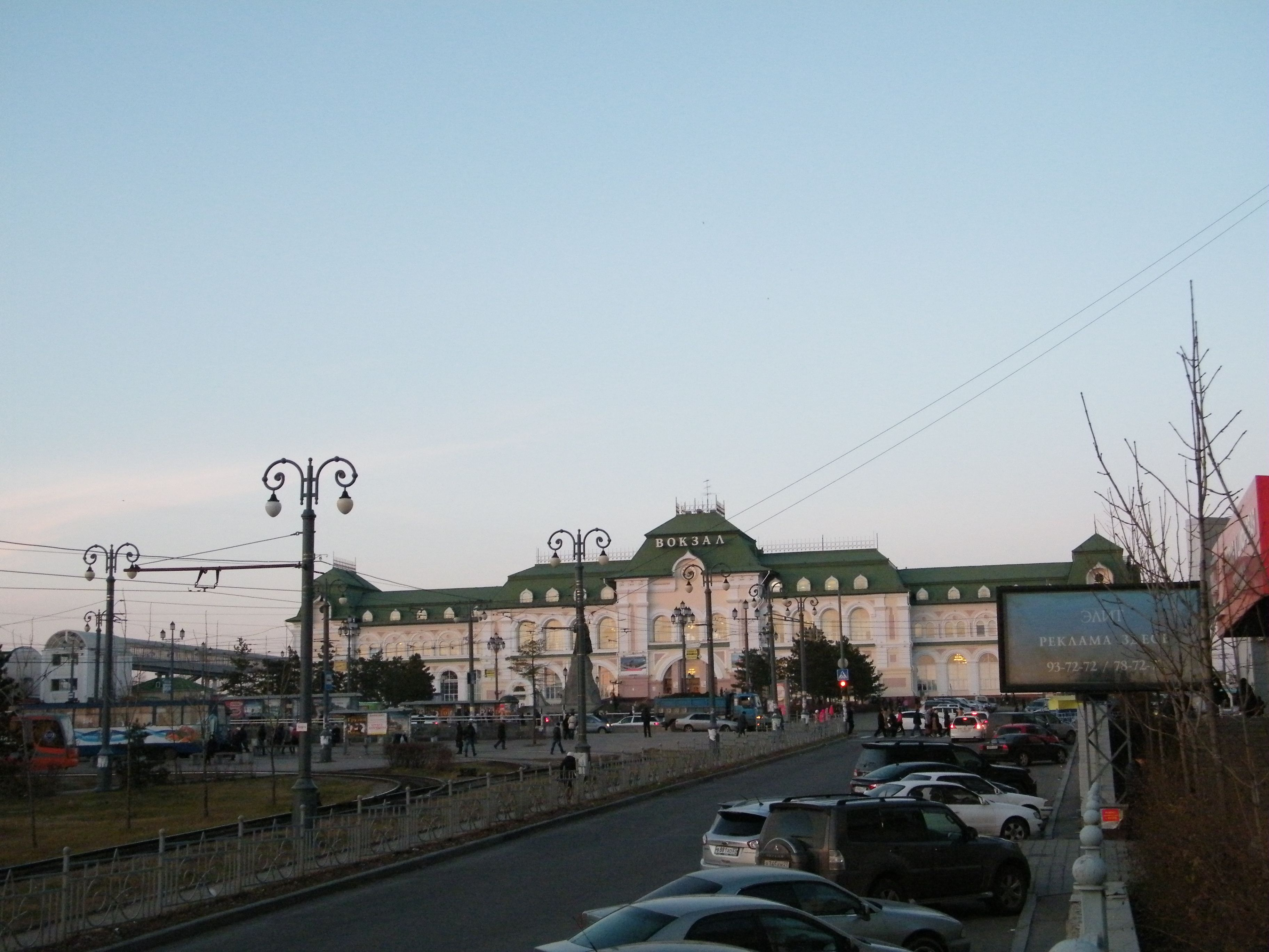 Khabarovsk railway station